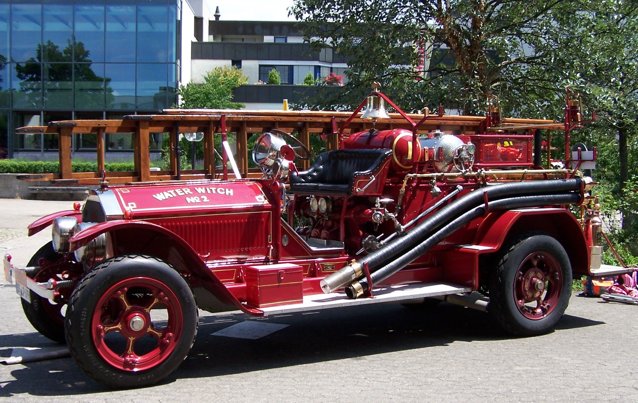 American LaFrance 75 No. 3542. The American LaFrance company was located in Elmira, New York.